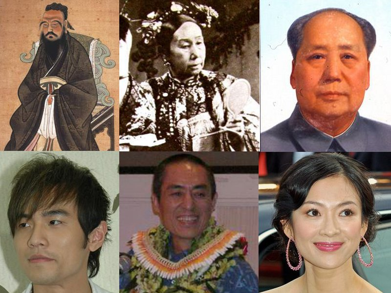 Collage of Chinese people: upper row: Confucius, Empress Dowager Cixi, Mao Zedong, below: Jay Chou, Zhang Yimou, Zhang Ziyi